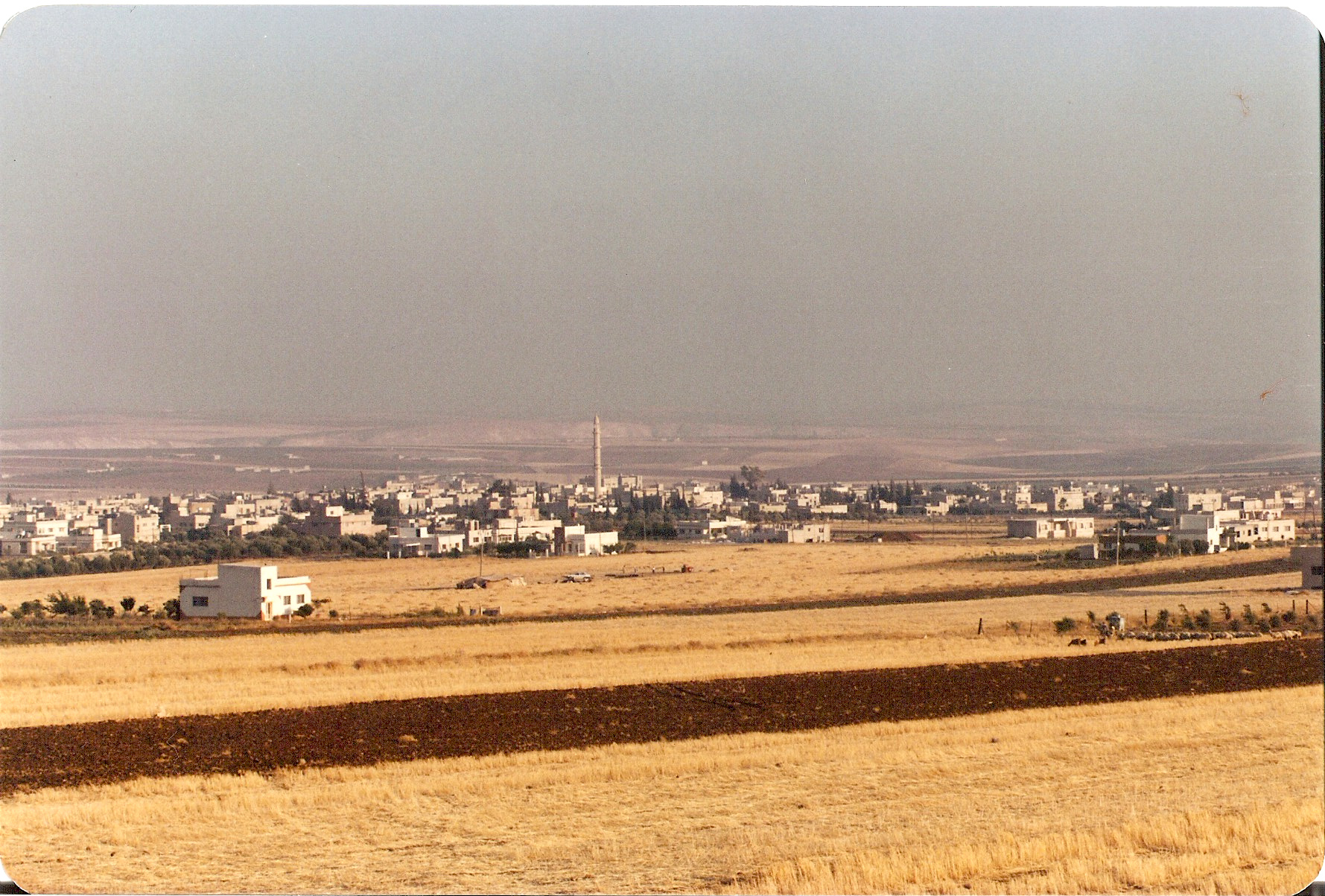 Huwwarah during summer season, North Jordan 1991